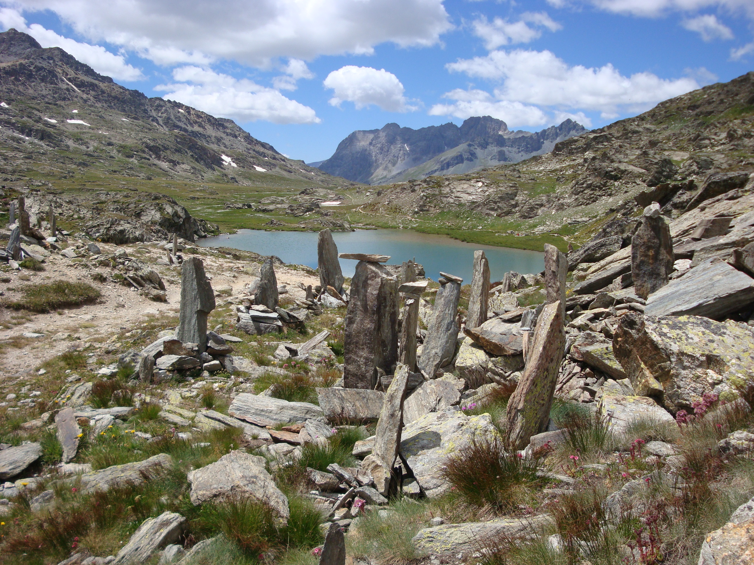 View from the Col du Longet of the lakes where the Ubaye river takes its source at the start of its journey down the Ubaye Valley.